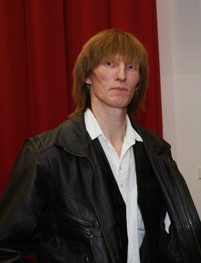 Frank Dorittke a.k.a. F.D.Project at the Schallwelle 2009